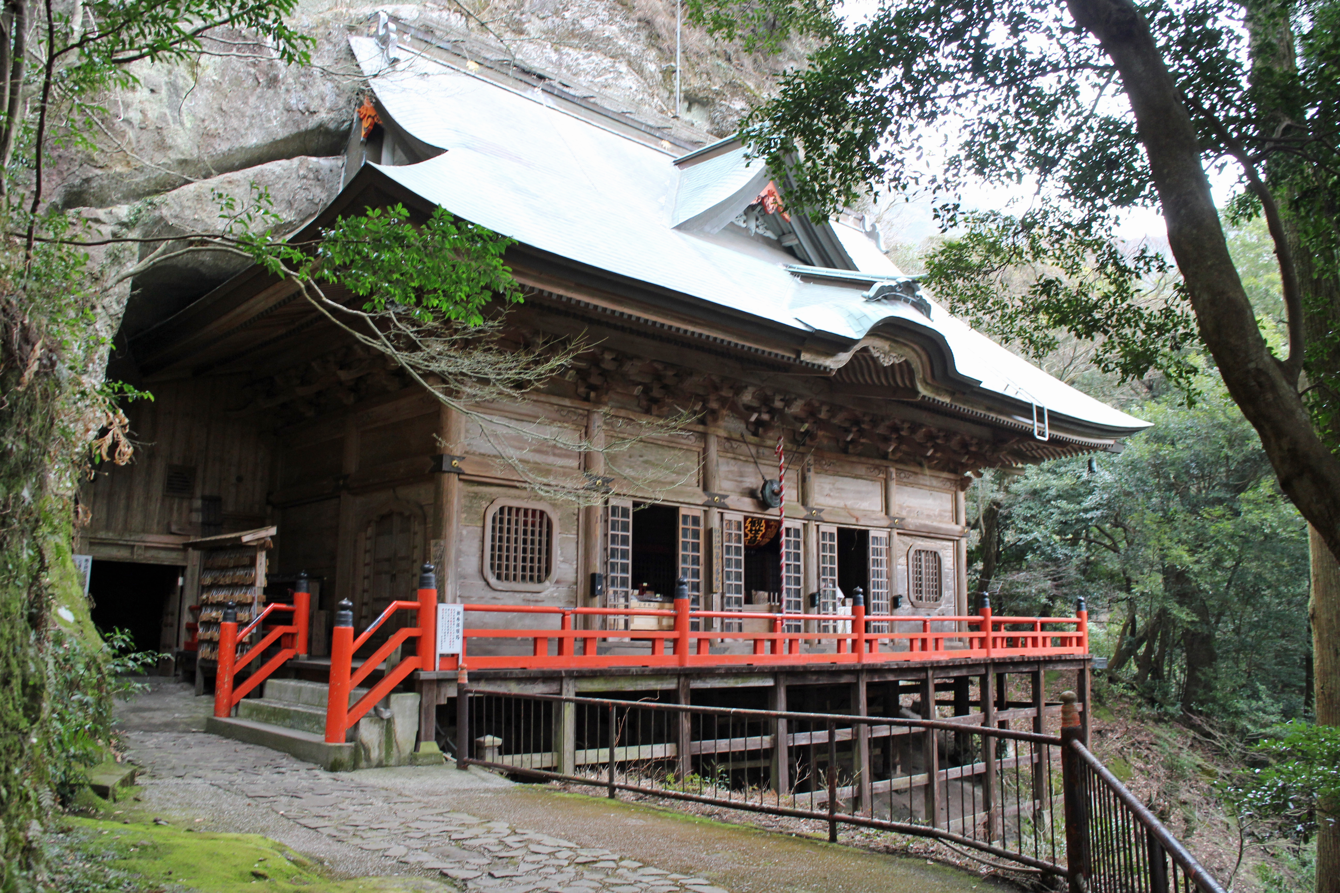 Futagoji-temple-Okunoin